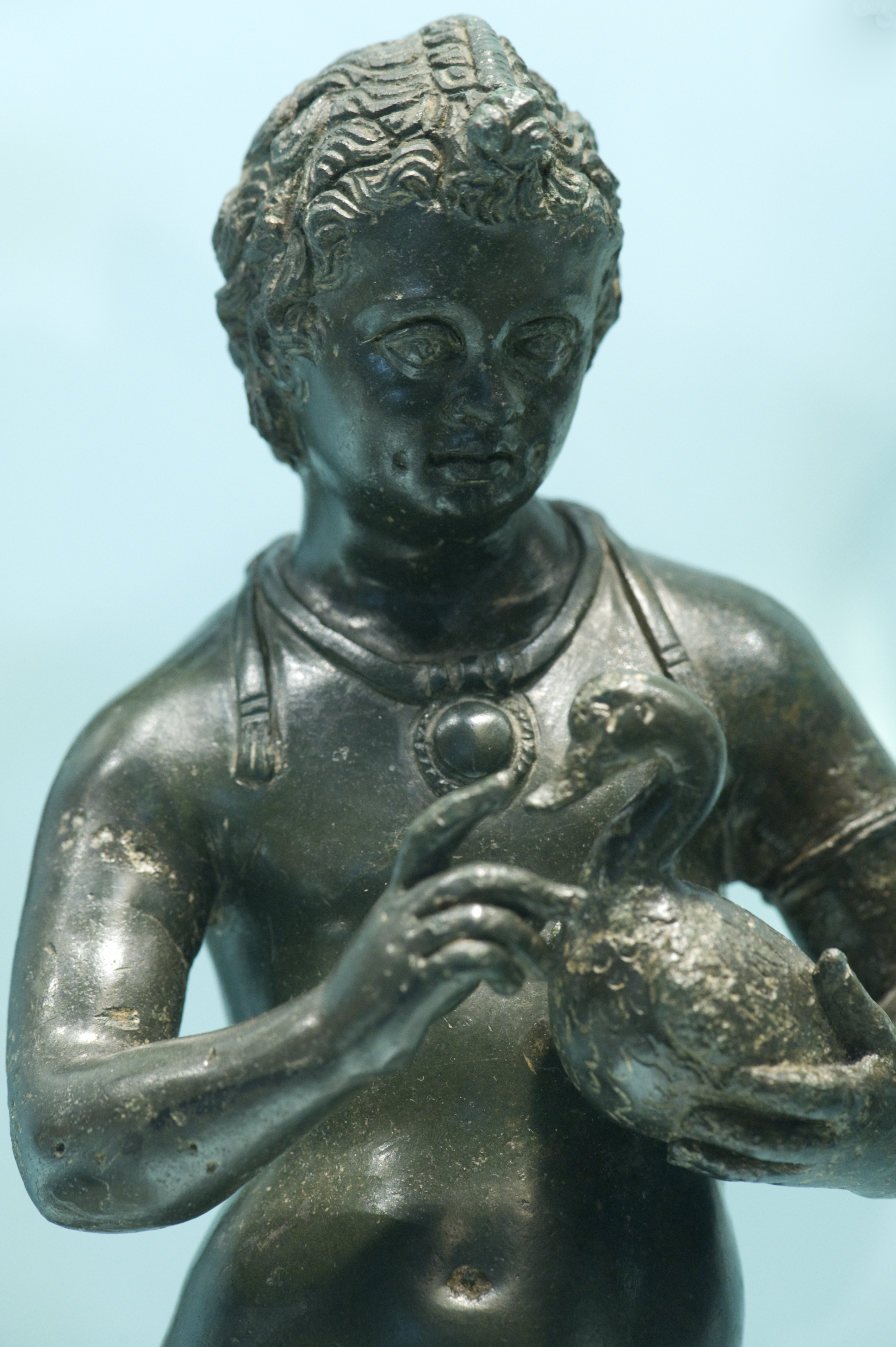 Etruscan boy with a goose and a necklaces with a bulla, (an amulet). (Etruscan boy, Rijksmuseum van Oudheden RMO, "Dutch National Museum of antiquities".)